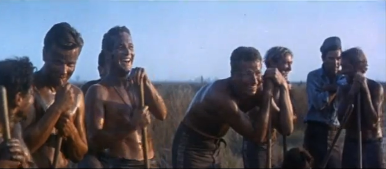 Luke and the chaingang finish paving the road before time.